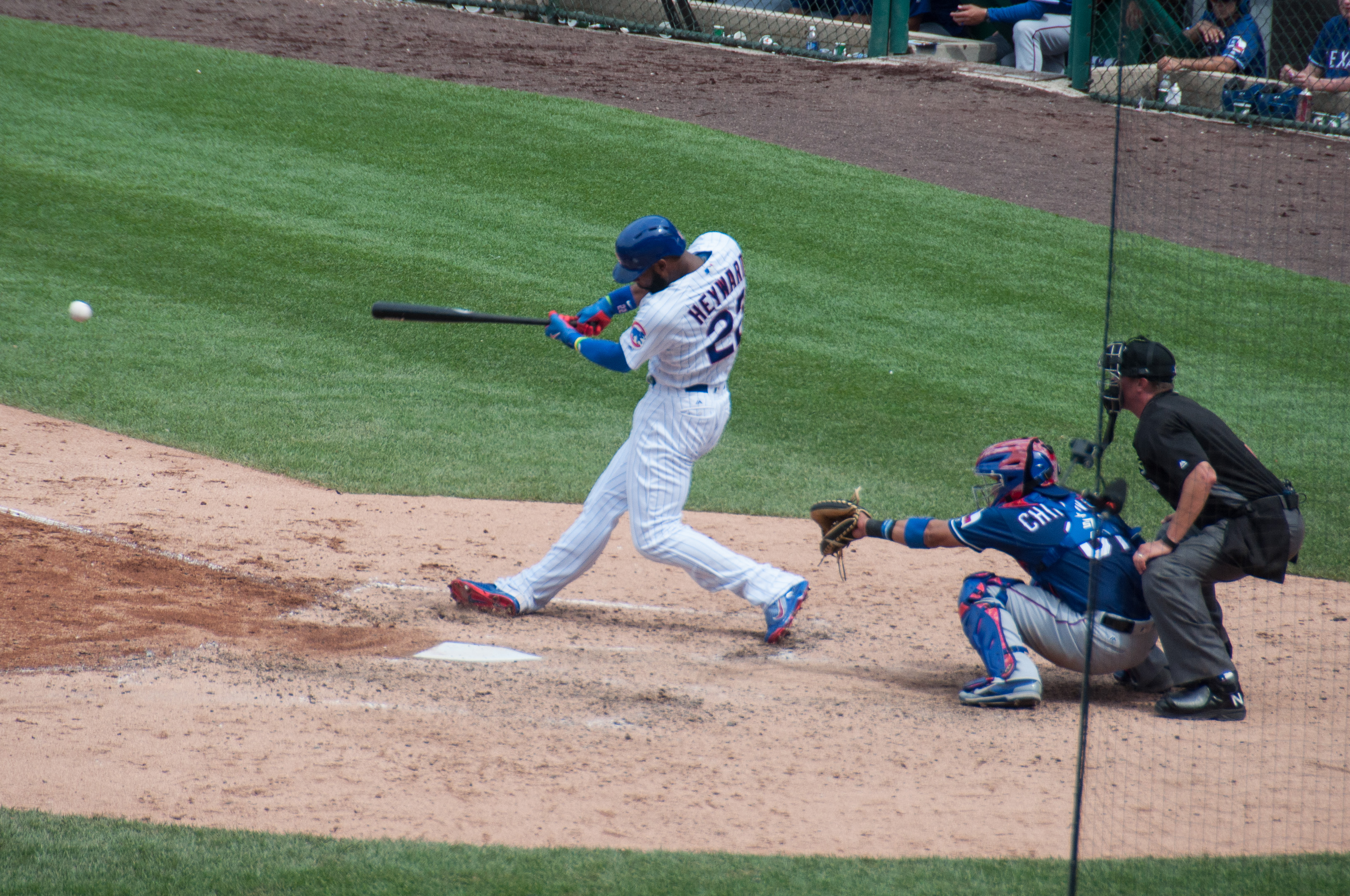 Heyward lines into double play